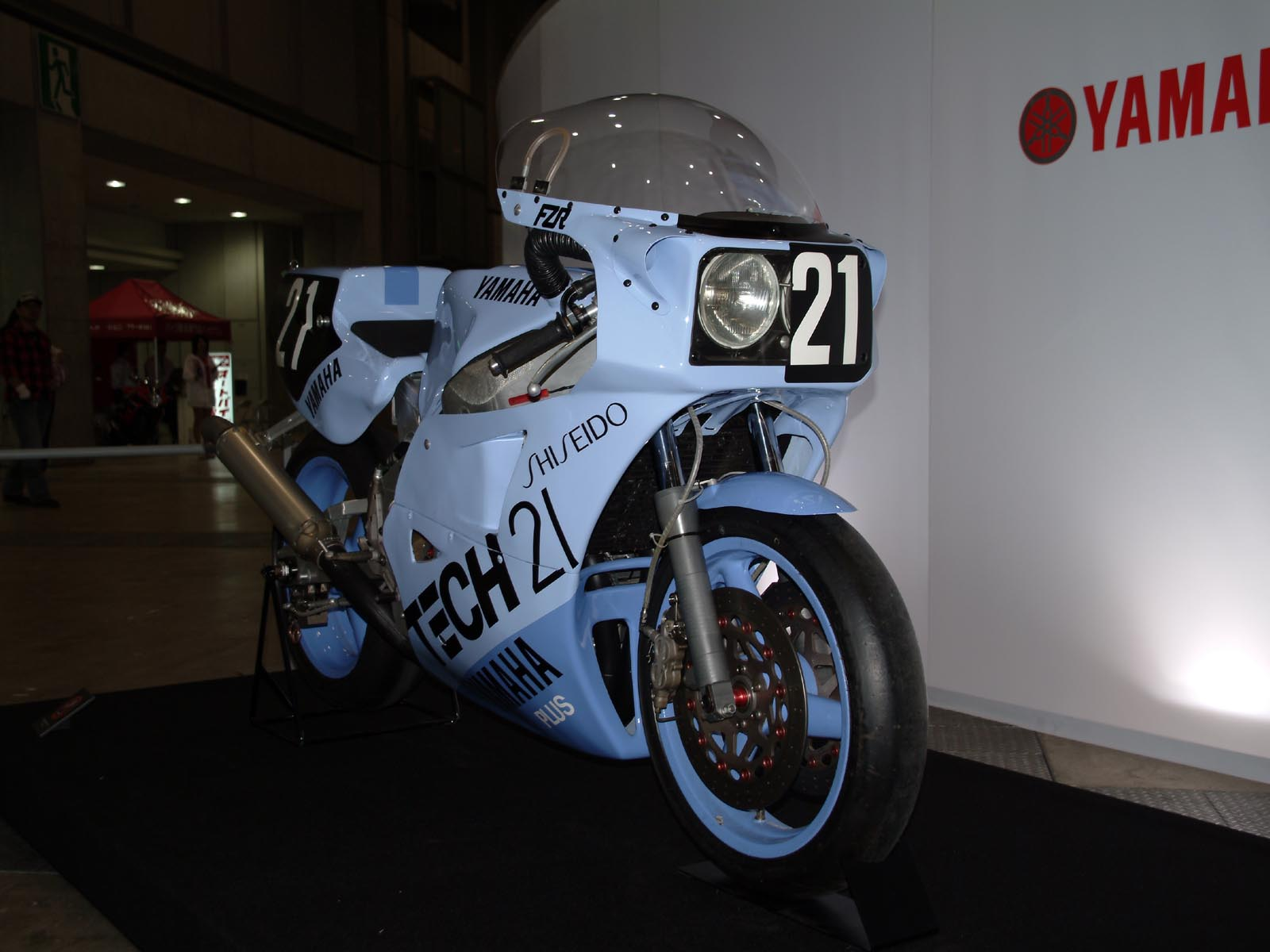 YAMAHA FZR750(1985, Suzuka 8H)